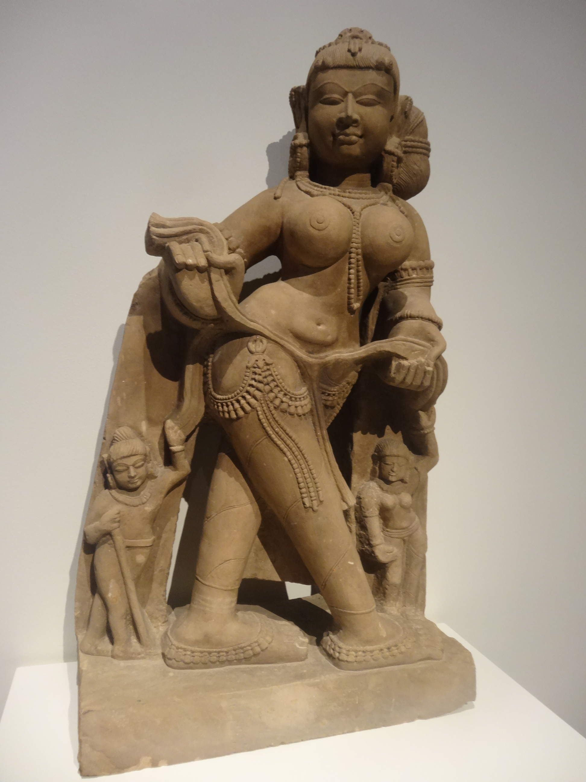 Museu de Cultures del Món, Barcelona. Celestial nymph.